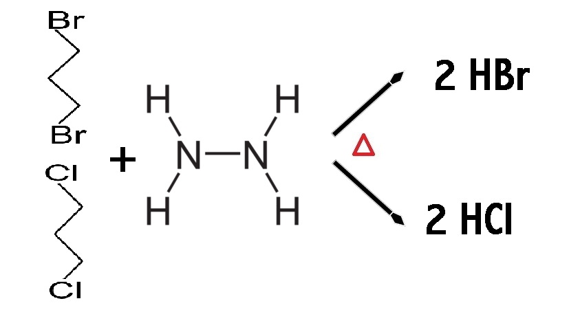 Pyrazolidine synthesis from 1,3-dichloropropane or 1,3-dibromepropane and hydrazine